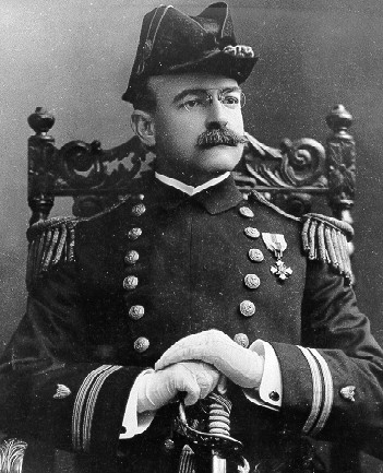 First Lieutenant Francis Saltus Van Boskerck, USRCS, circa 1907